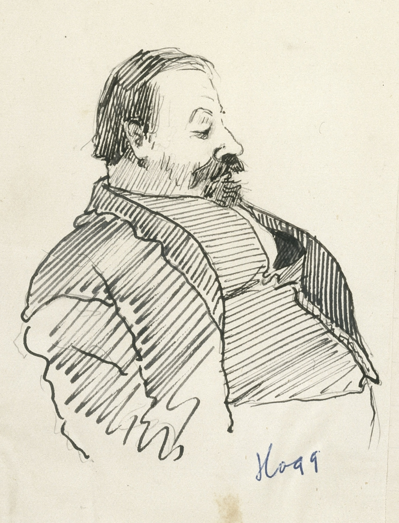 Caricatures of four parliamentarians. Sketch in black ink over pencil of Major William Jukes Stewart, John Duthie, Alexander Wilson Hogg and John McLachlan. Sketch is on p168 of the scrapbook.